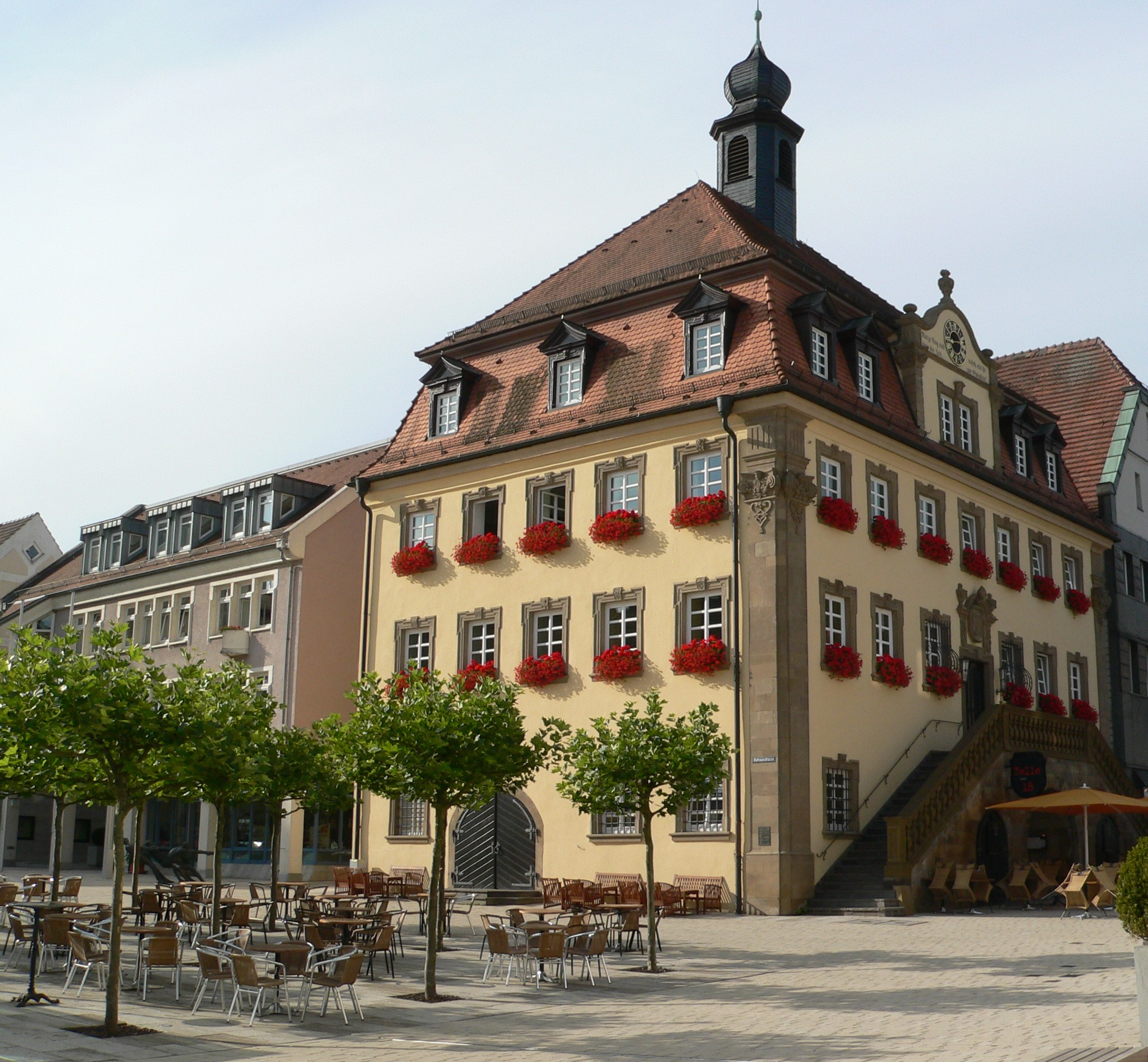 Guildhall (Rathaus) of the City Neckarsulm